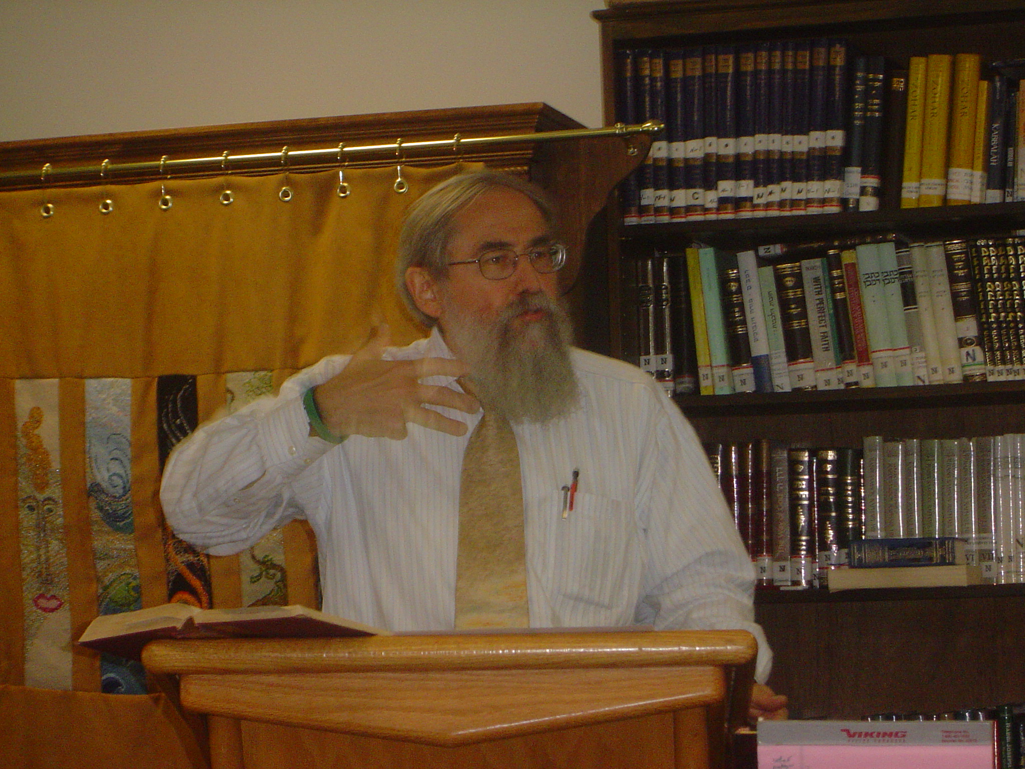 Rabbi Saul Berman speaking at Yeshivat Chovevei Torah Rabbinical School